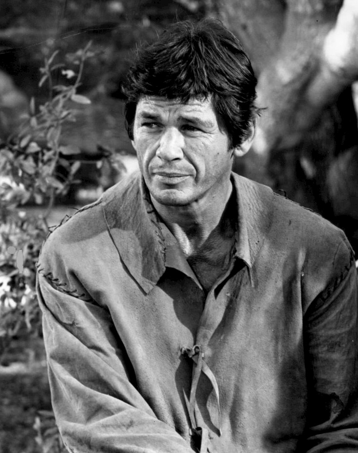 Photo of Charles Bronson as Linc, the wagonmaster, from the television program The Travels of Jaimie McPheeters.